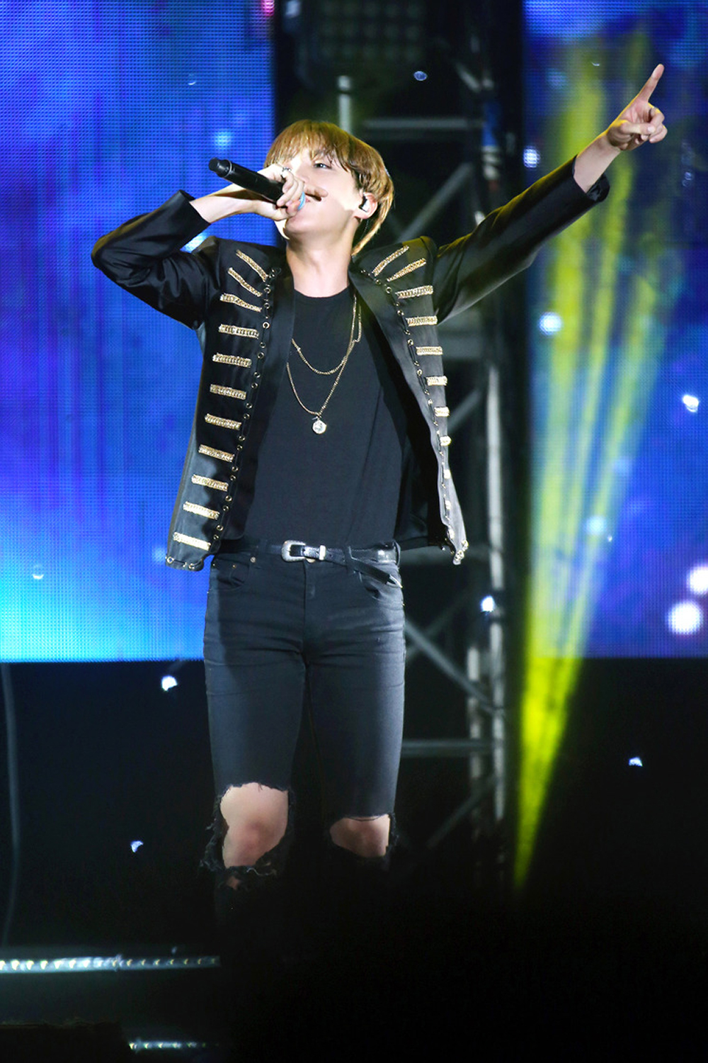 J-Hope at The Mood For Love On Stage Epilogue in Nanjing on July 2, 2016.